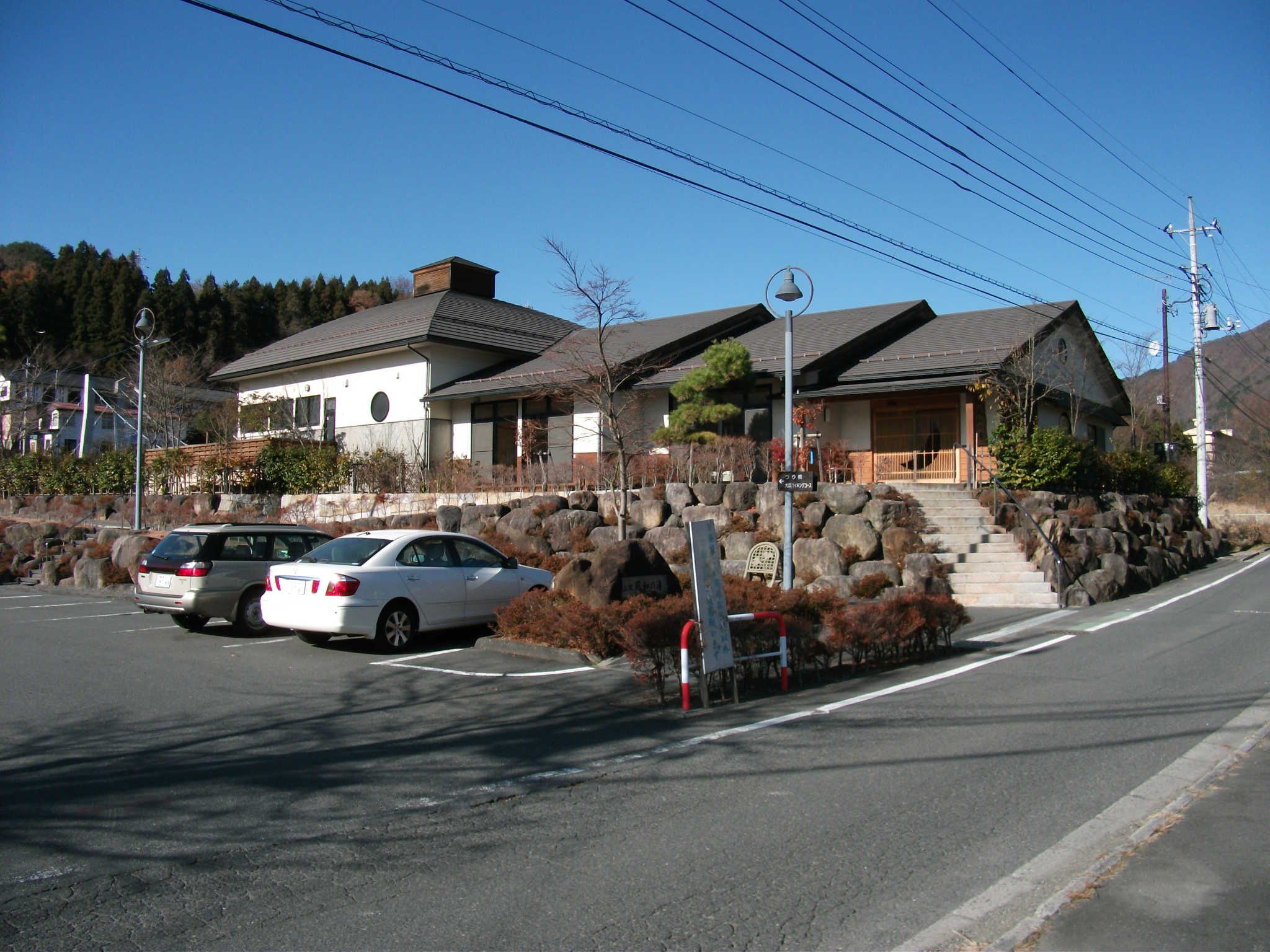 Kamimoku_Onsen "Fuwa-no-yu" (Gunma, Japan)